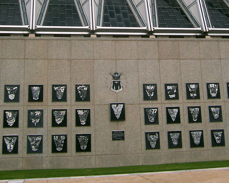 Class Wall at the United States Air Force Academy (Colorado Springs, Colorado) - taken by myself on August 7, 2004.